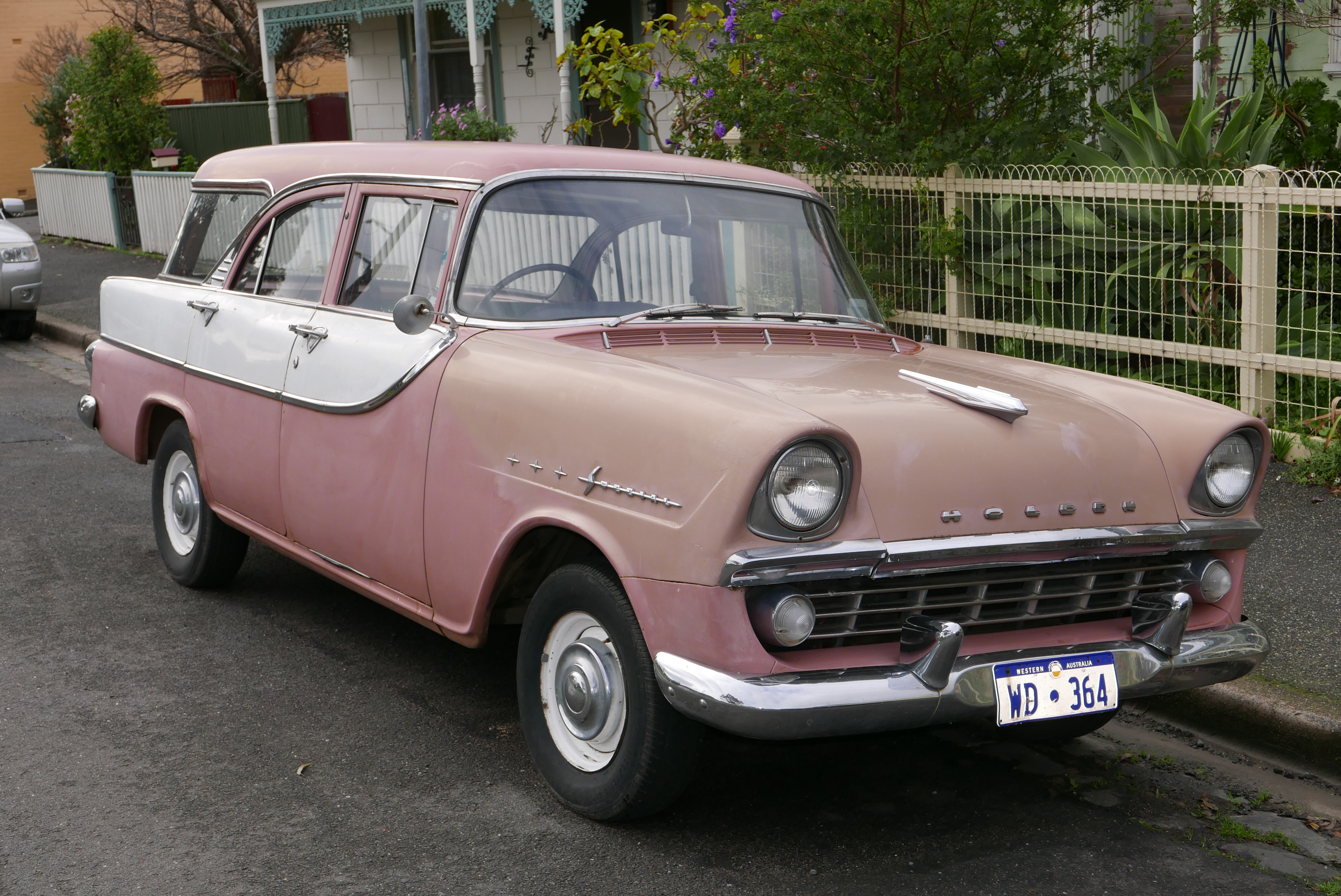 1960–1961 Holden Special (FB) Station Sedan station wagon. Photographed in Northcote, Victoria, Australia.